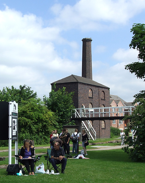 The Engine House at Hawkesbury Junction, Warwickshire Looking across from near the stop lock on the Oxford Canal. The footbridge in the picture is across the Coventry Canal. The lean-to at the rear is the oldest part of the pump house and housed the first engine to be installed in 1821. This was a second hand Newcomen type engine which had already served hundred years at one of the local collieries. It was called "Lady Godiva" and was used to raise water into the canal from a stream flowing underneath. By 1837, however, this supply proved inadequate, so a 114 foot shaft was sunk and a new, more powerful engine installed alongside "Lady Godiva" in the three-storey building by the Coventry Canal in this picture. In 1913 this water supply failed due to the sinking of the new Coventry Colliery and the engine house fell into disuse. The newer engine was scrapped during the Second World War. "Lady Godiva" remained in place until 1963 when it was moved to Dartmouth, the birthplace of Thomas Newcomen, as the centrepiece of a memorial museum. Full information regarding the whole industrial conservation area around the junction can be see on this excellent web page